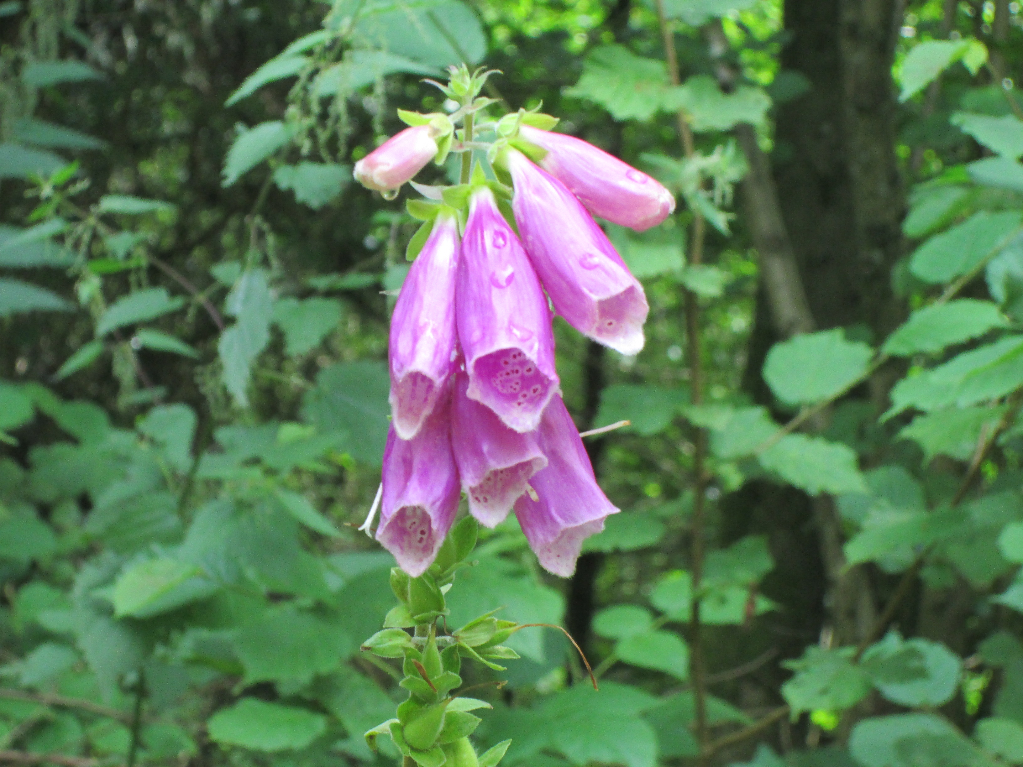 an unknown flower in germany